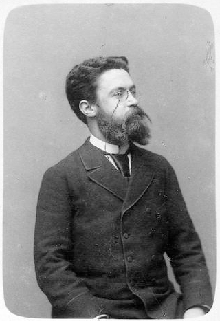 French politician Marcel Sembat (1862-1922) photographed by Pierre Petit (1832-1909).